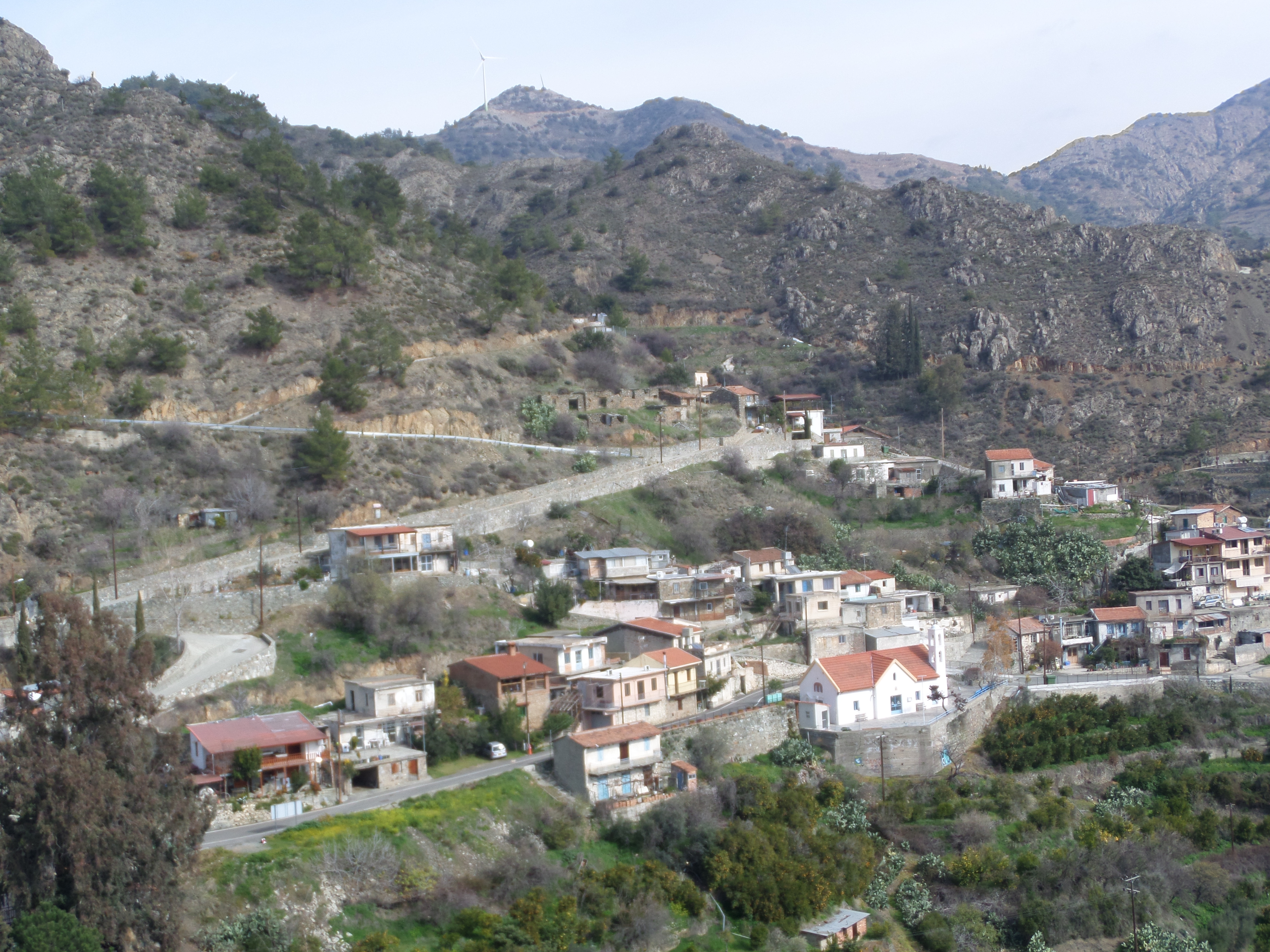 View of Sykopetra.